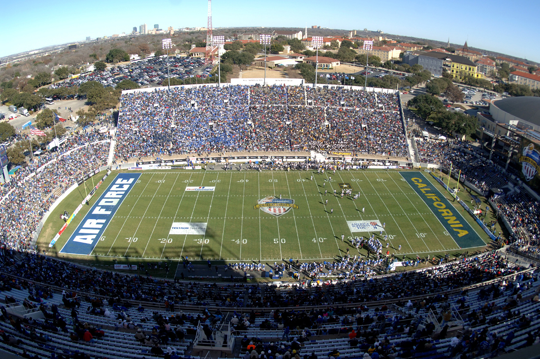 A bowl record 40,905 fans watch as the U.S. Air Force Academy and the California Golden Bears compete during the Bell Helicopter Armed Forces Bowl at Amon G. Carter Stadium in Fort Worth, Texas. The Air Force sideline is at the bottom of the shot and the Falcons were the home team. ID: 071231-F-7061J-012